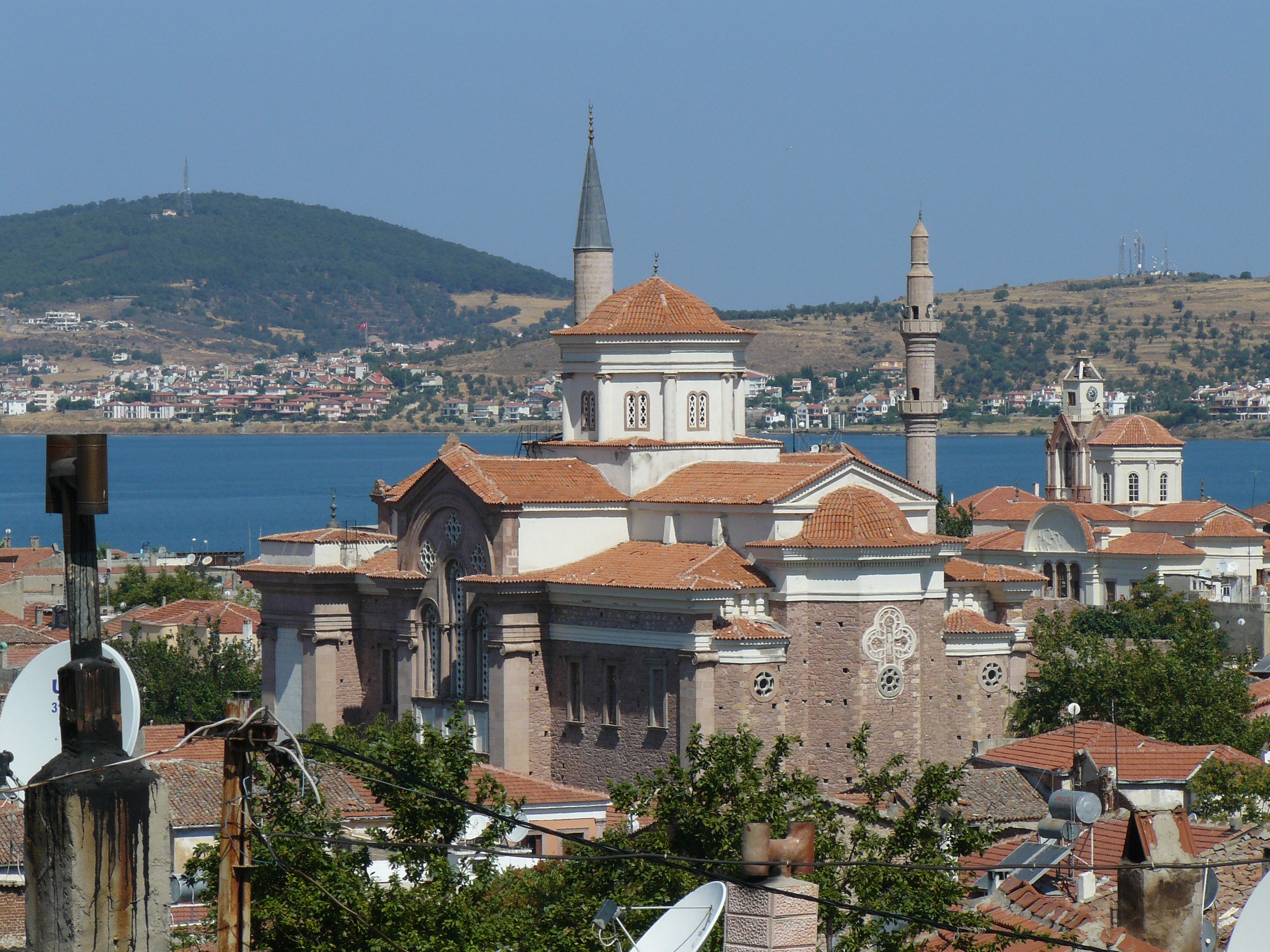 View on the historic center of Ayvalik (Turkey)